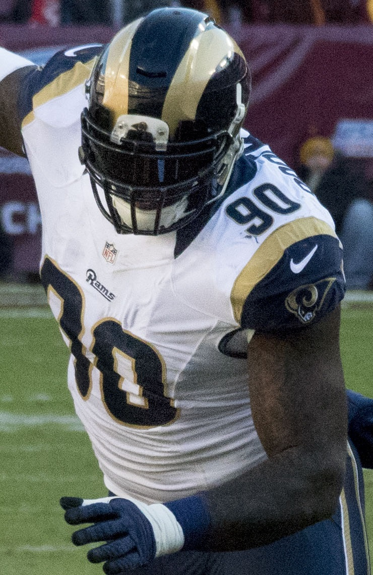 Rams at Redskins 12/7/14